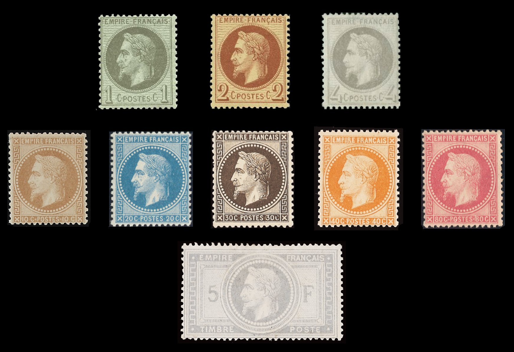 France, french stamps Napoleon empire philately